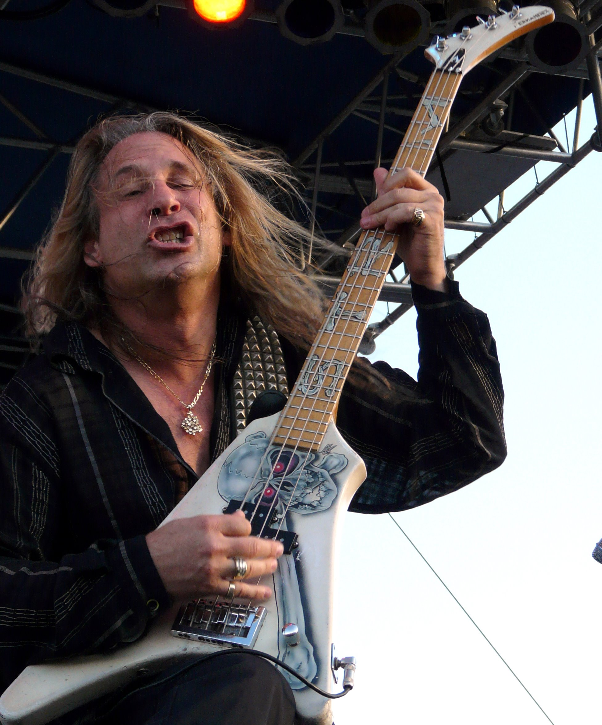 Dana Strum live with Slaughter on June 21, 2008 at the Red River Valley Fair in West Fargo, North Dakota